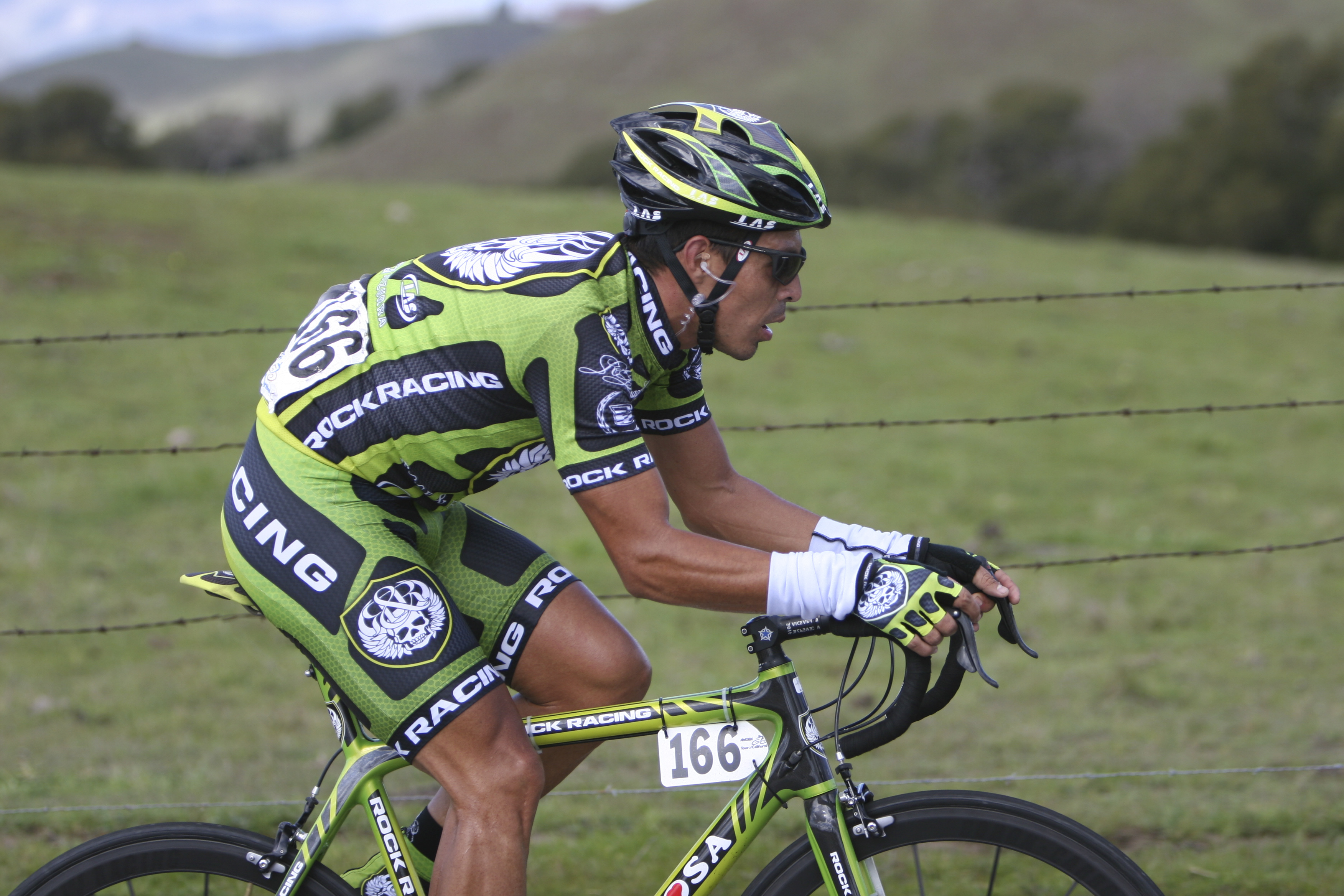 Victor Hugo Peña in the Tour of California 2008